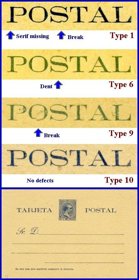 Various plating types of postal card of Cuba, 1896, illustrated. There were 10 different printing positions on a sheet. Because they were typeset, there are minor variations in the letters that allow all 10 to be discerned. Here, for instance, are some of the variations in the word "POSTAL".